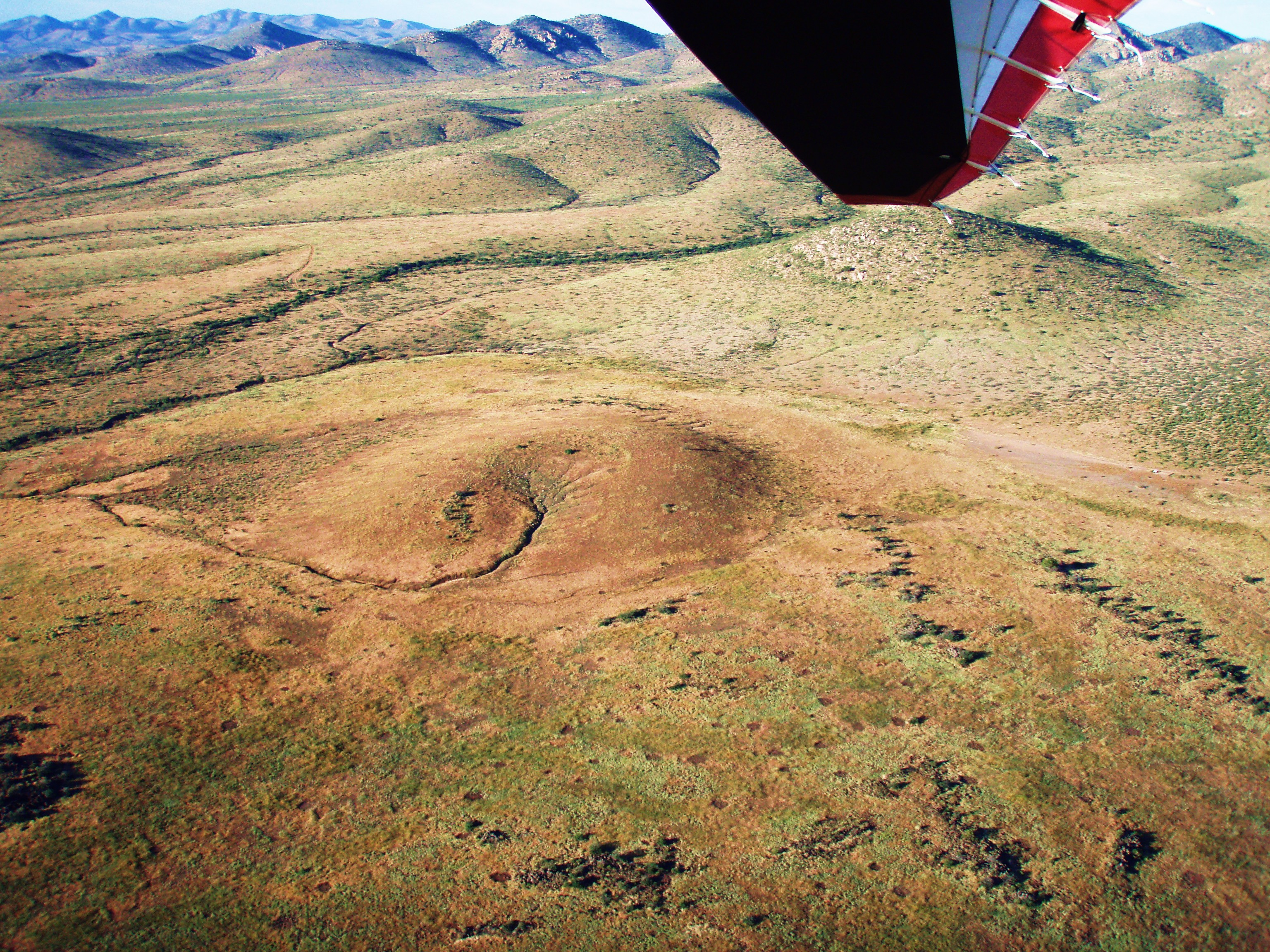 Volcanic vent at the head of the lava flow west of Animas, New Mexico. The northeast Peloncillo Mountains (Hidalgo County) are on the horizon-(right). At left the massif of the Chiricahua Mountains, in Arizona lie beyond the San Simon Valley, between the two mountains. (At south SSimonValley: Rodeo, New Mexico.)